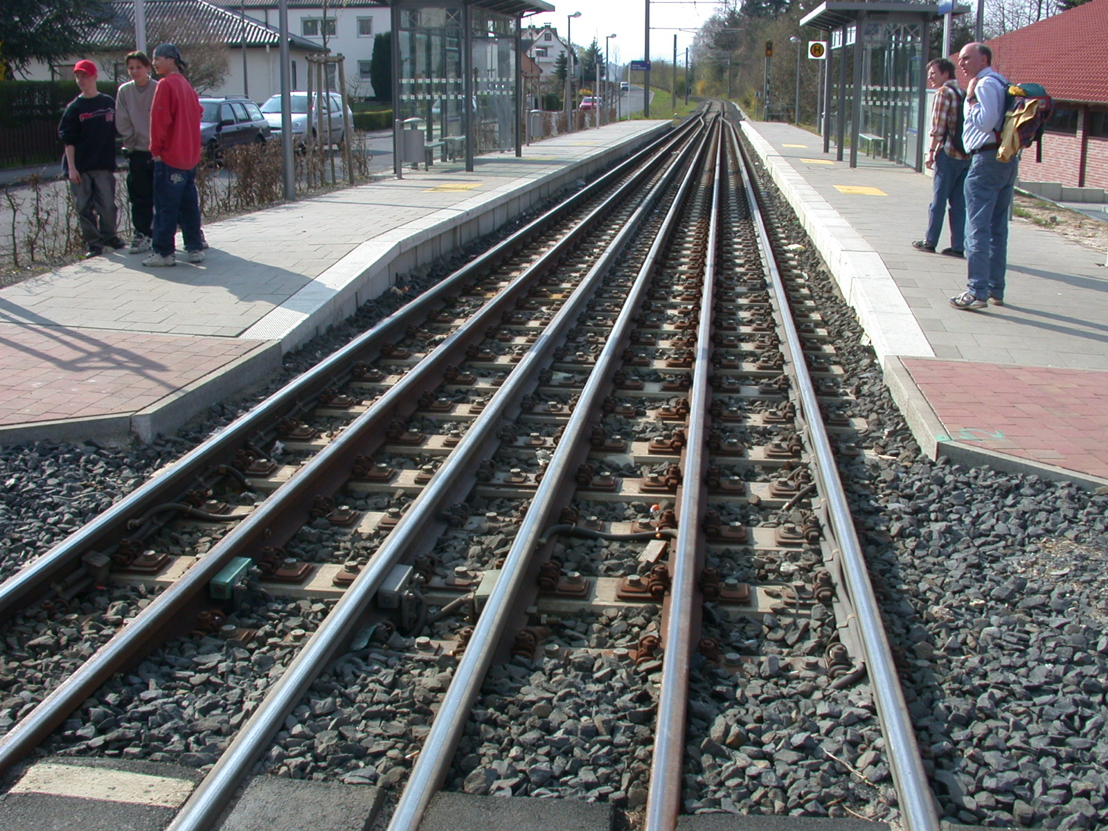 Triple track line with six rails on the "Lossetalbahn" near Kassel, accomodating standard gauge freight trains on the center track and narrow body (2.65 m) tram-trains on the outer tracks nearer to the platform edges. The image shows the station Niederkaufungen-Mitte